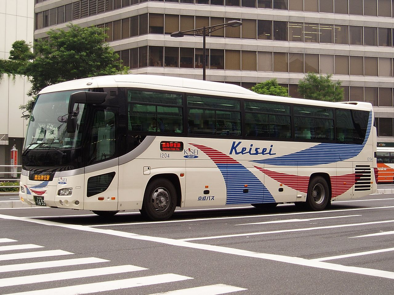 Keisei Bus 1204 "Kashima" Isuzu PKG-RU1ESAJ at Tokyo Sta.